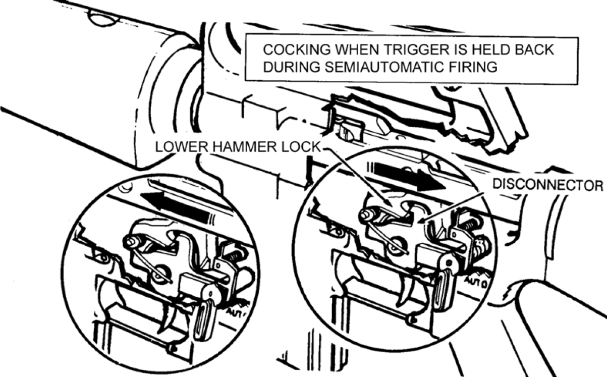 M16 rifle cocking